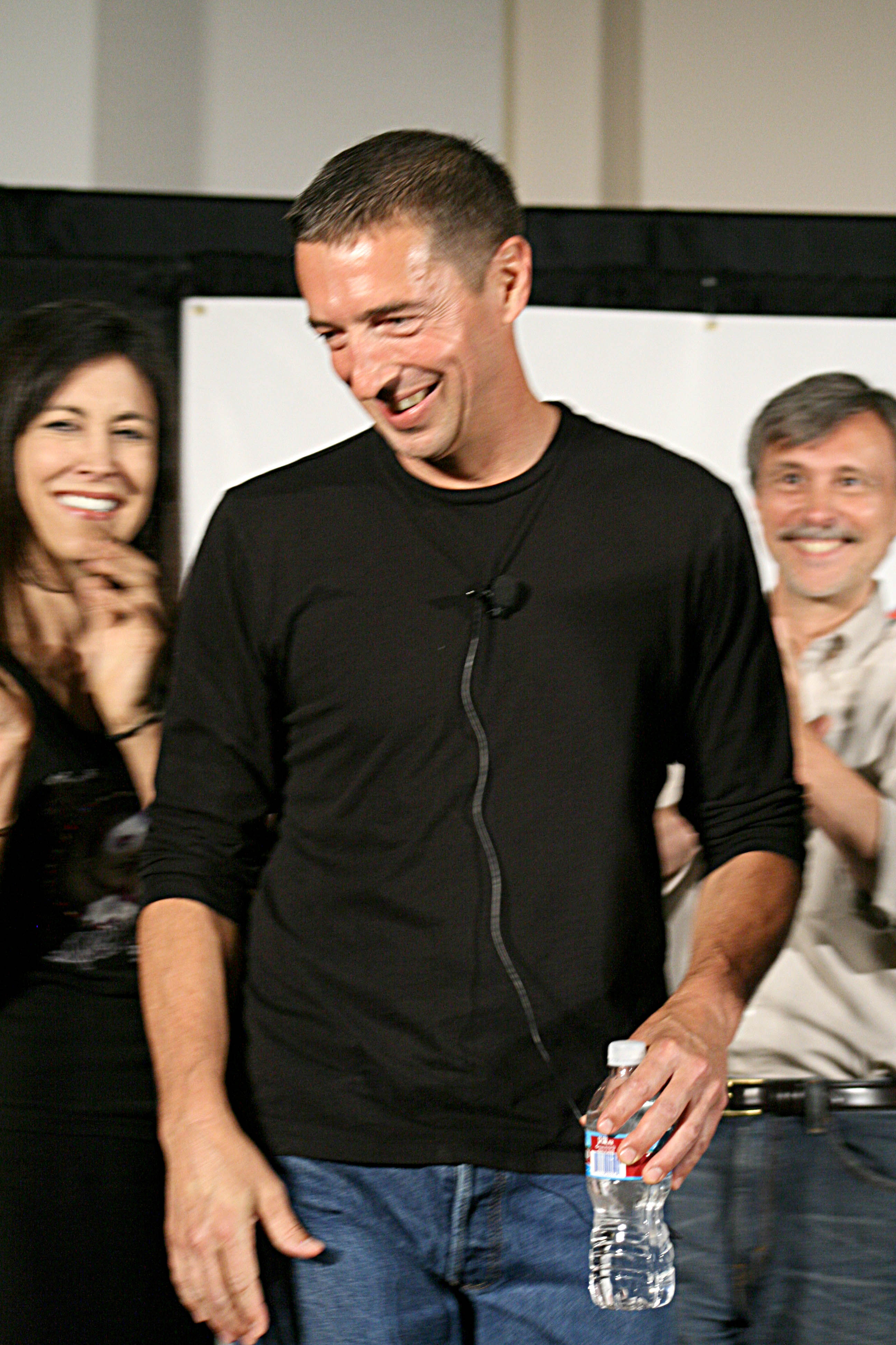 Ron Reagan in August 2008